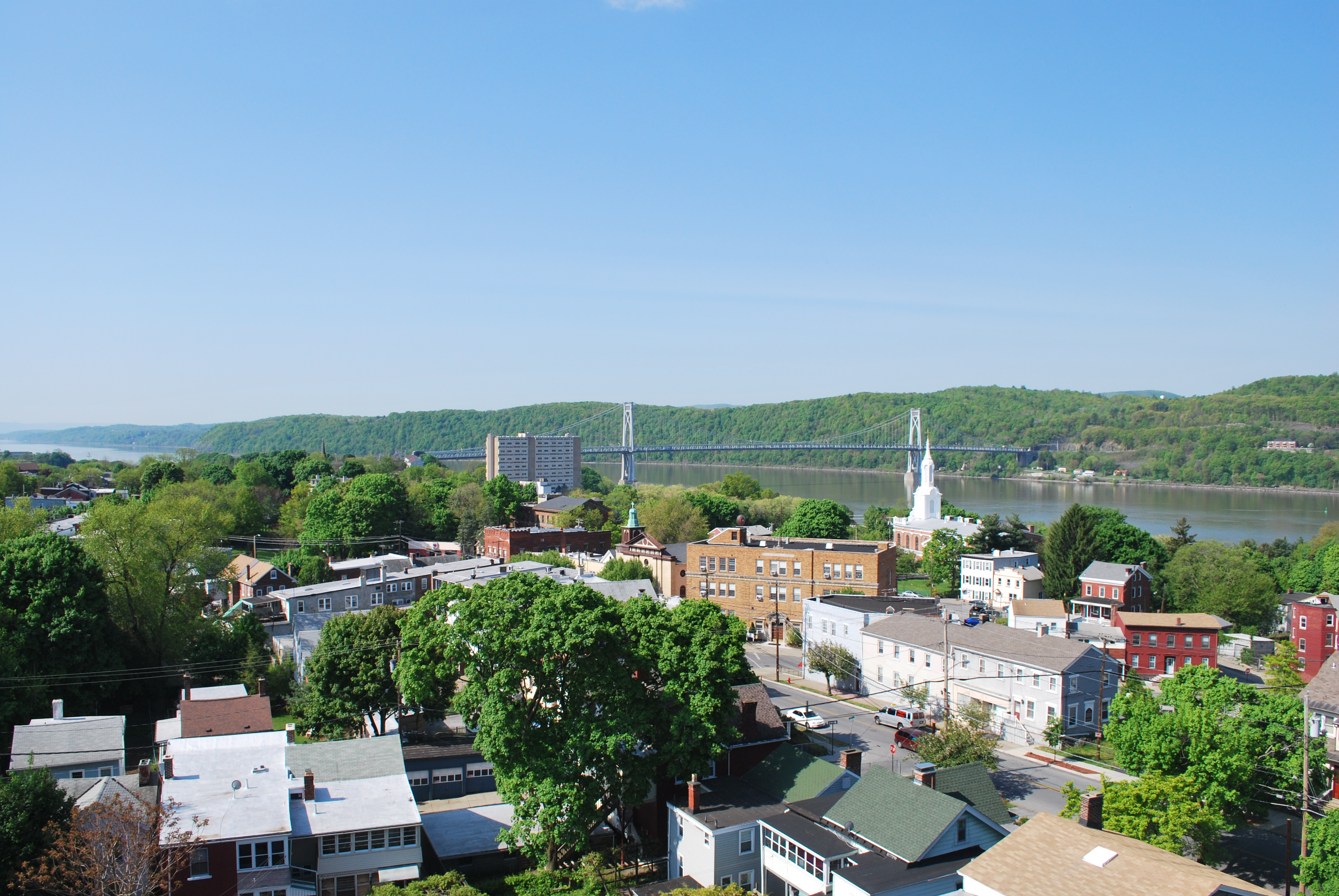 Bird's-eye view of Poughkeepsie, New York from the Walkway Over the Hudson. The Hudson River is visible in the background.